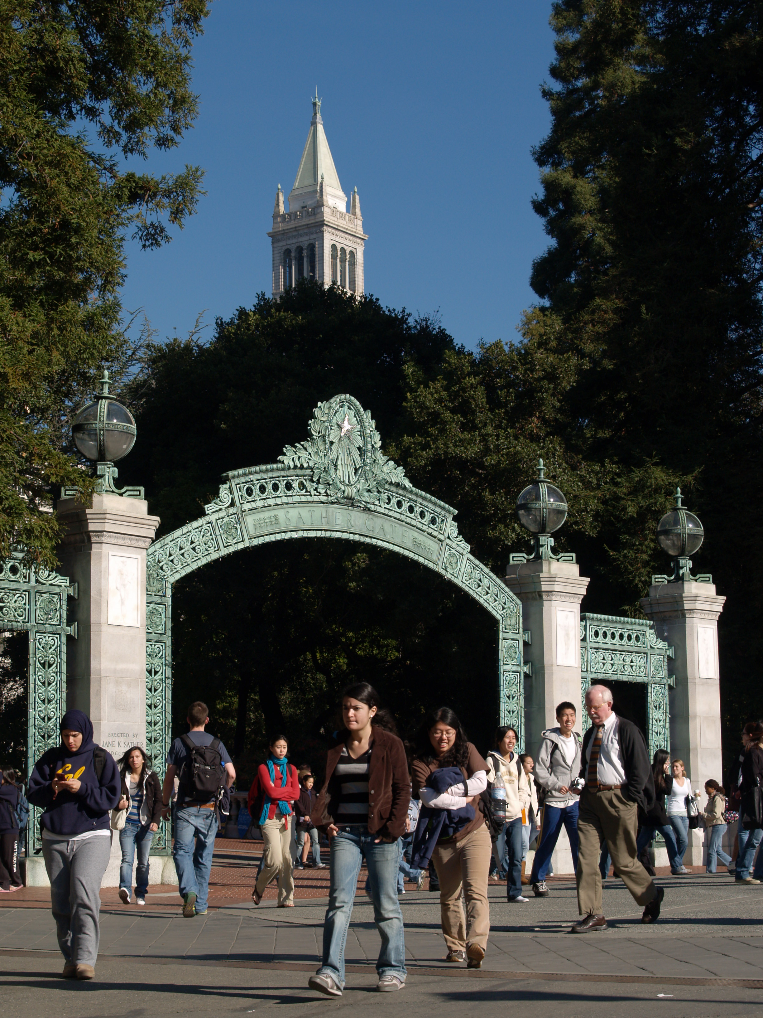 The Campanile and Sather Gate on the UC Berkeley campus, 2006 Author: Tristan Harward